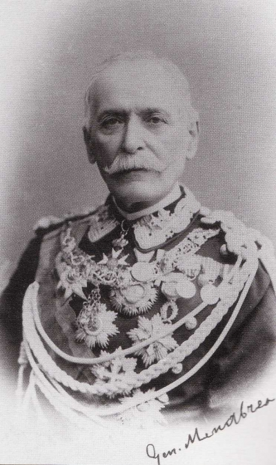 Luigi Federico Menabrea (September 4, 1809 – May 24, 1896), 9th Prime Minister of Italy